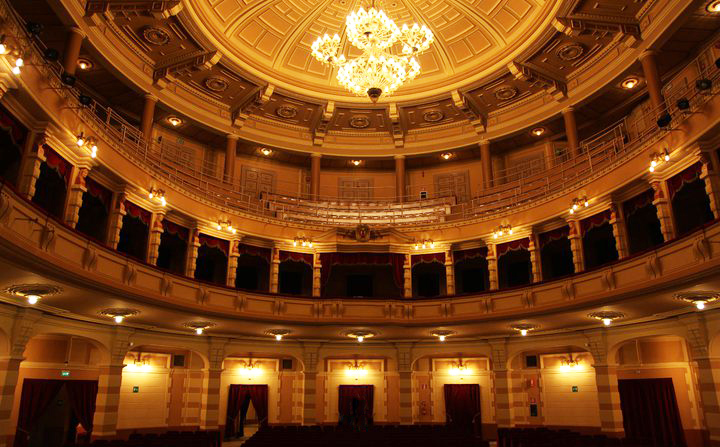 Teatro Civico Vercelli